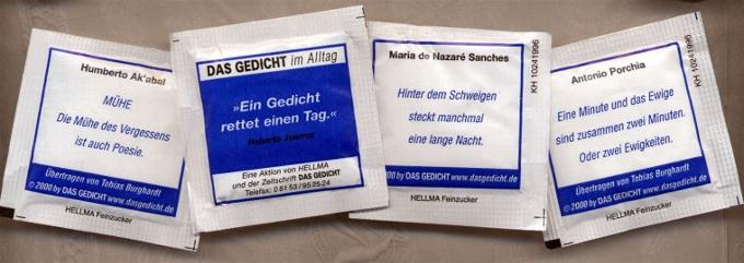 Photograph shows sugar packages with verses printed on them.